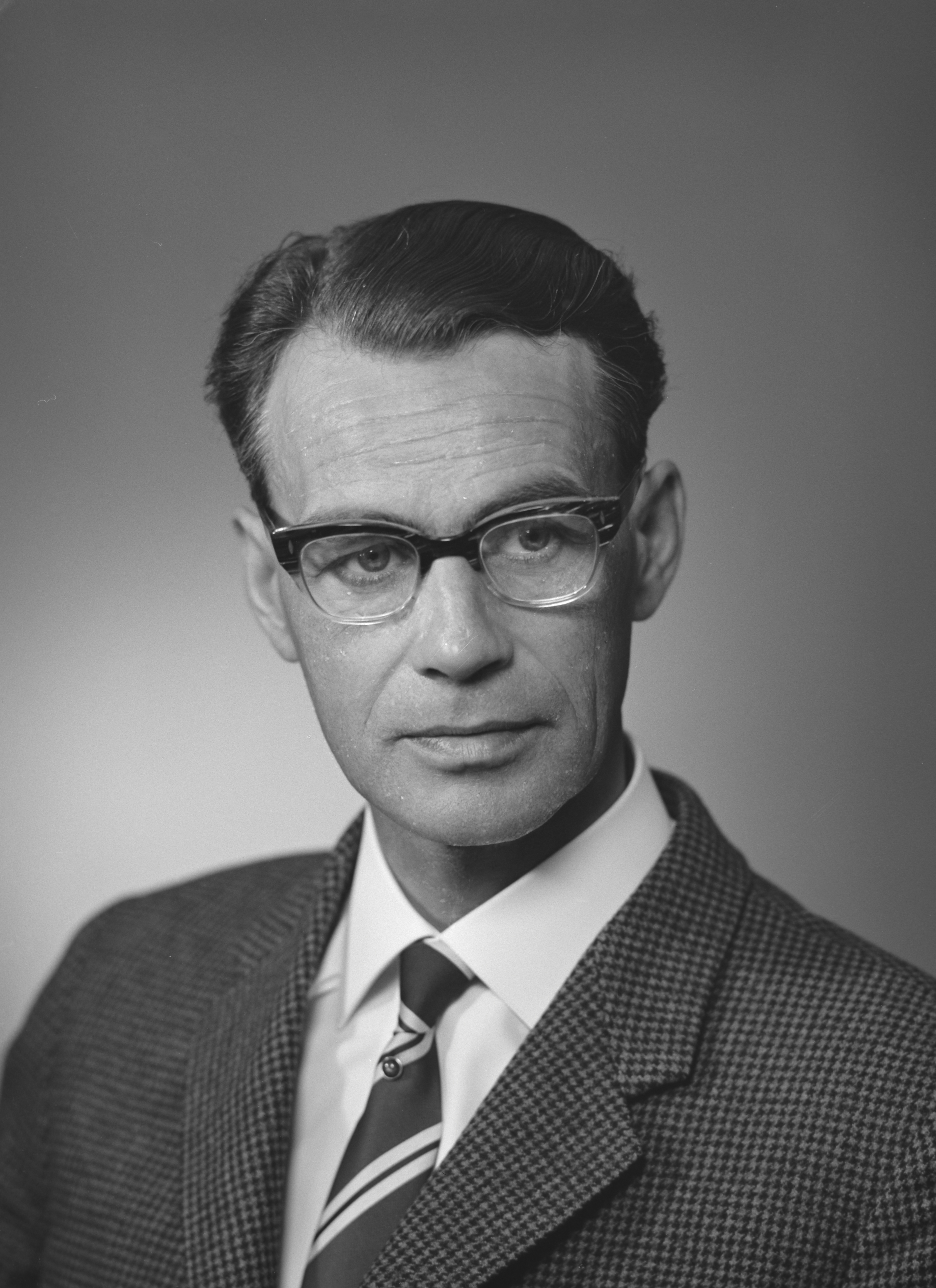 Photograph of the Finnish politician and priest Erkki Ervamaa (1915–1962).